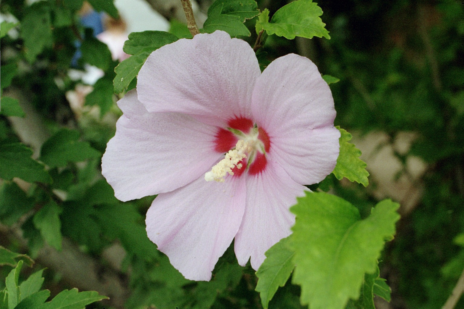 Photographed in the Albuquerque Old Town section of Albuquerque, New Mexico. Plant located on Rio Grande Blvd just north of Central on the east side of the road on the north side of the alley between Central and S. Plaza Street.